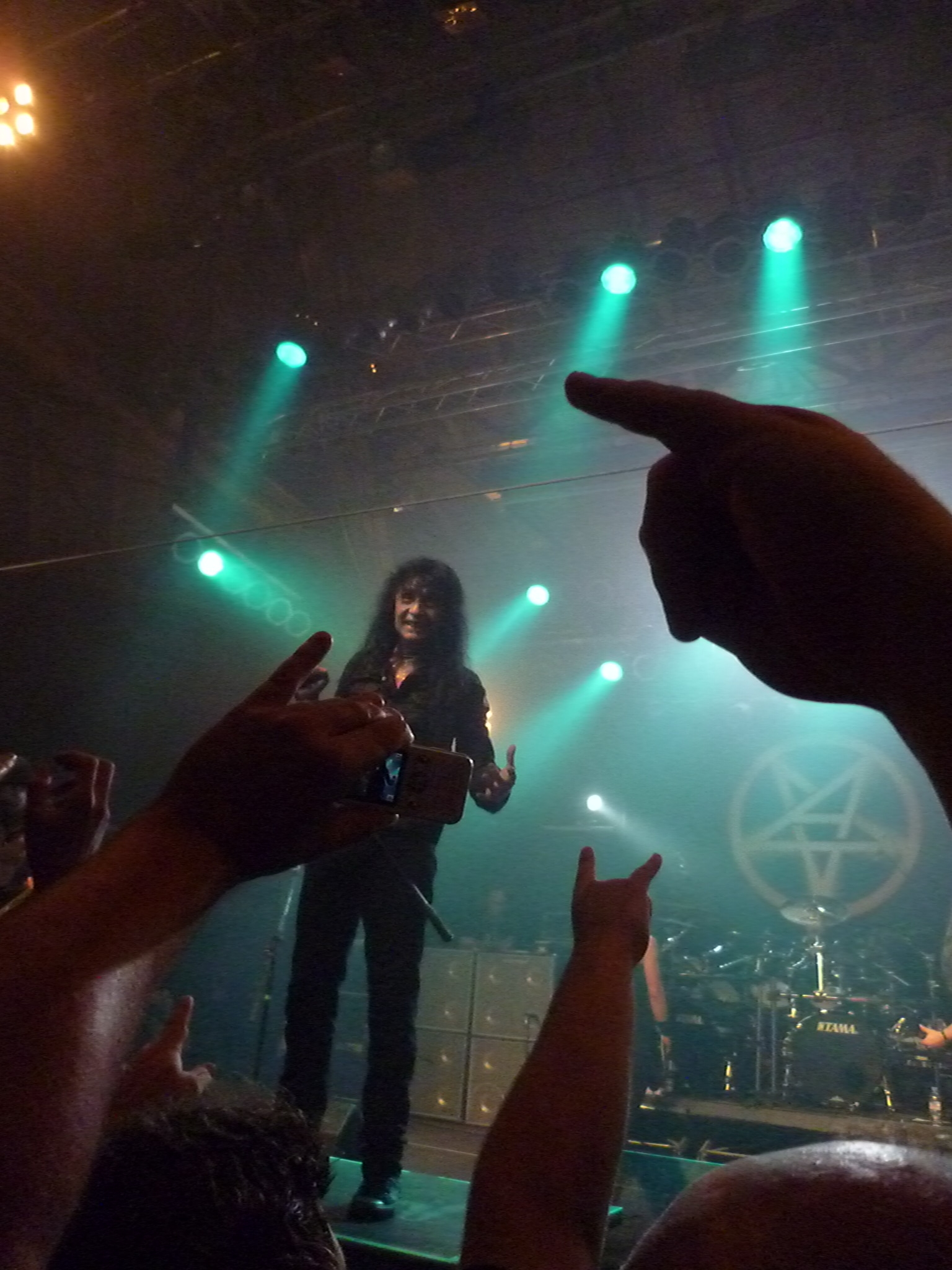 Belladonna live with Anthrax at the Garage Saarbrücken